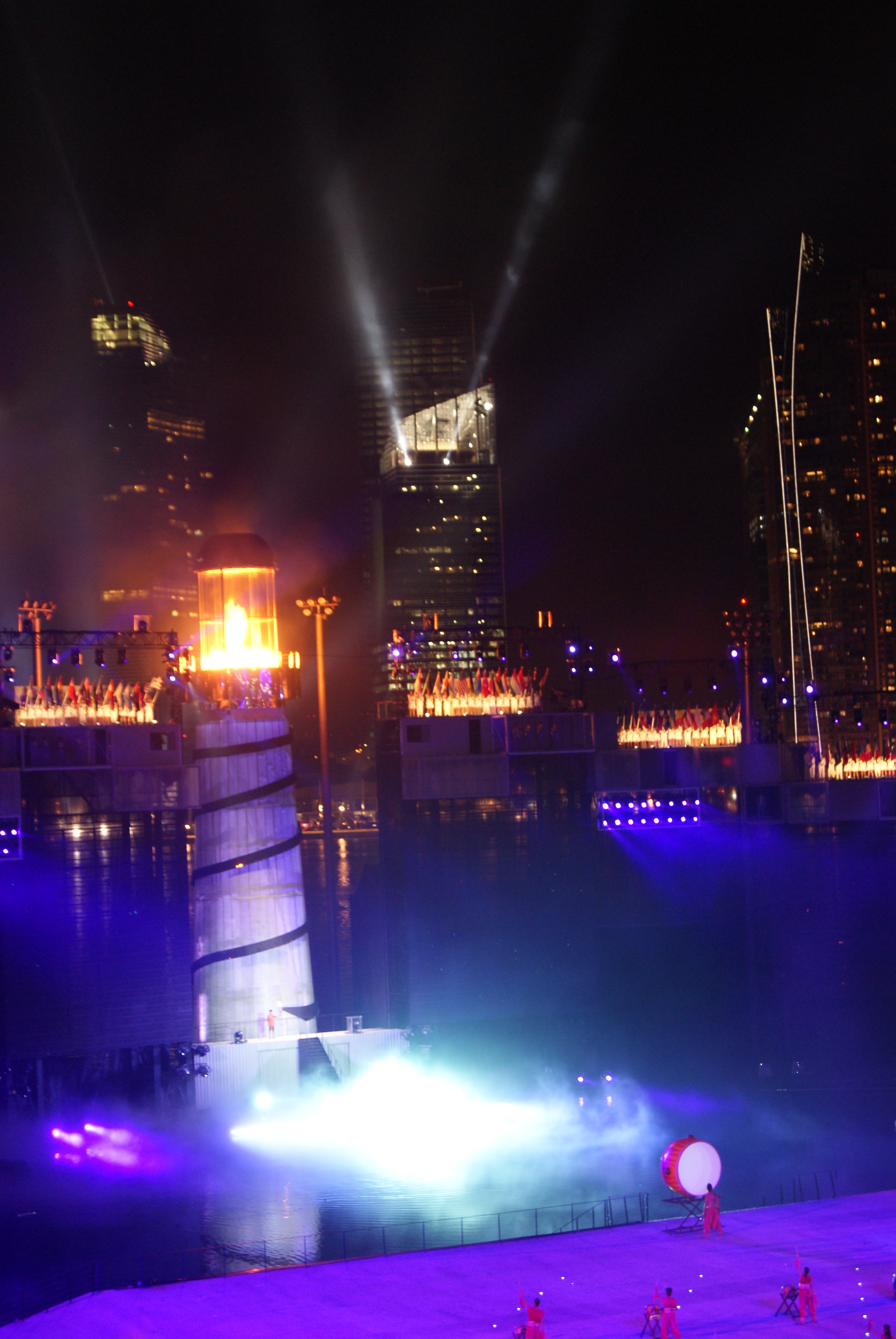 The Olympic cauldron is lit during the Blazing the Trail segment (finale) of the 2010 Summer Youth Olympics opening ceremony at The Float@Marina Bay, Singapore.